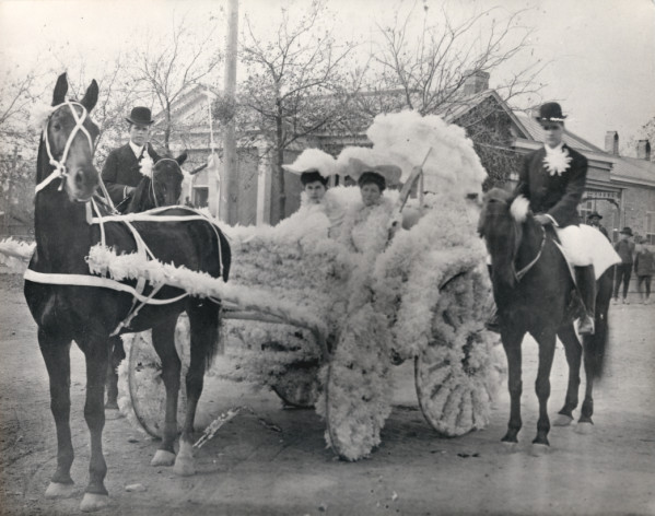 Ima Hogg and an unidentified woman are seated in a horse-drawn carriage, decorated with flowers for the Tekram parade, part of Houston's No-Tsu-Oh festival. Two unidentified men sit atop horses on each side of the carriage. Date late 1890s